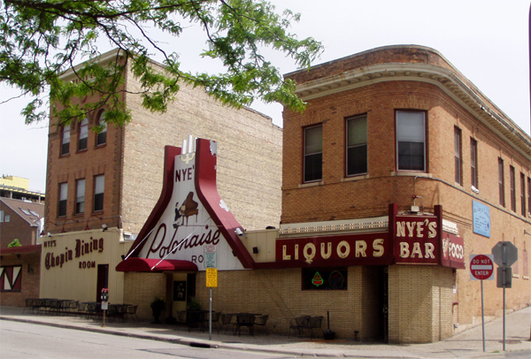 Nye's Polonaise Room taken in 2006, polka bar on the right and main dining room middle and left.